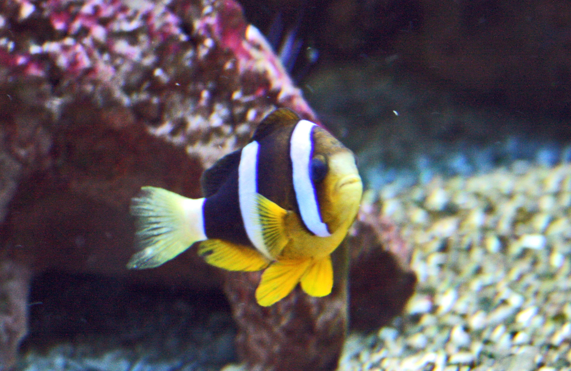 Fish Amphiprion clarkii in Prague sea aquarium, Czech Republic